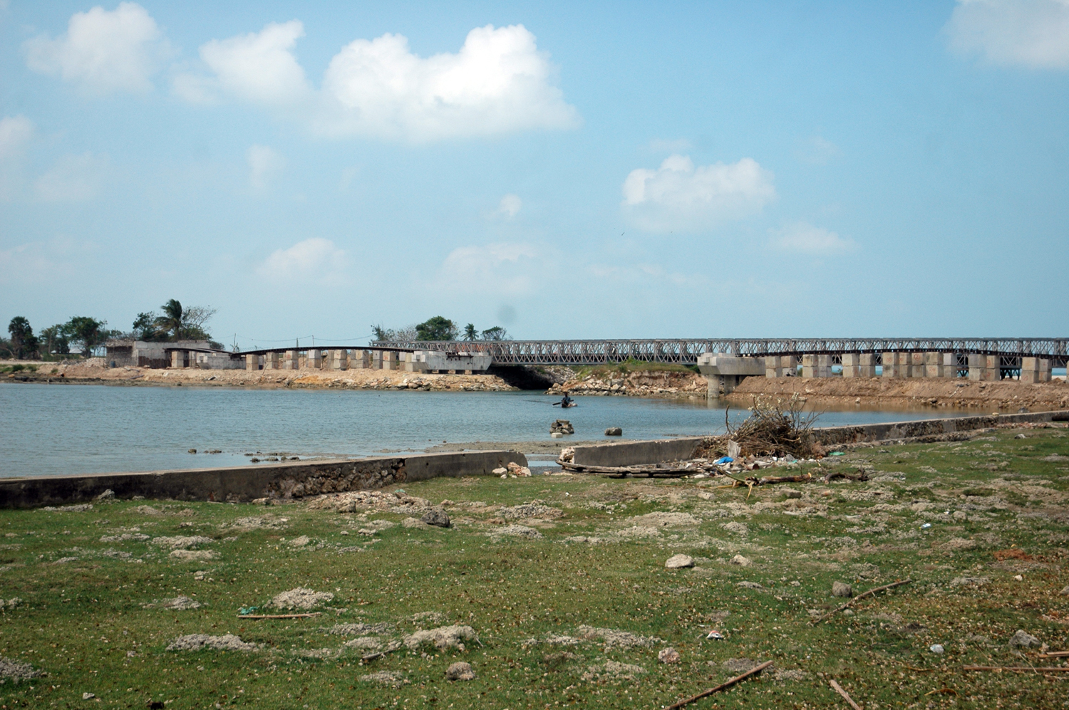 Thondamanaru Bridge, Jaffna